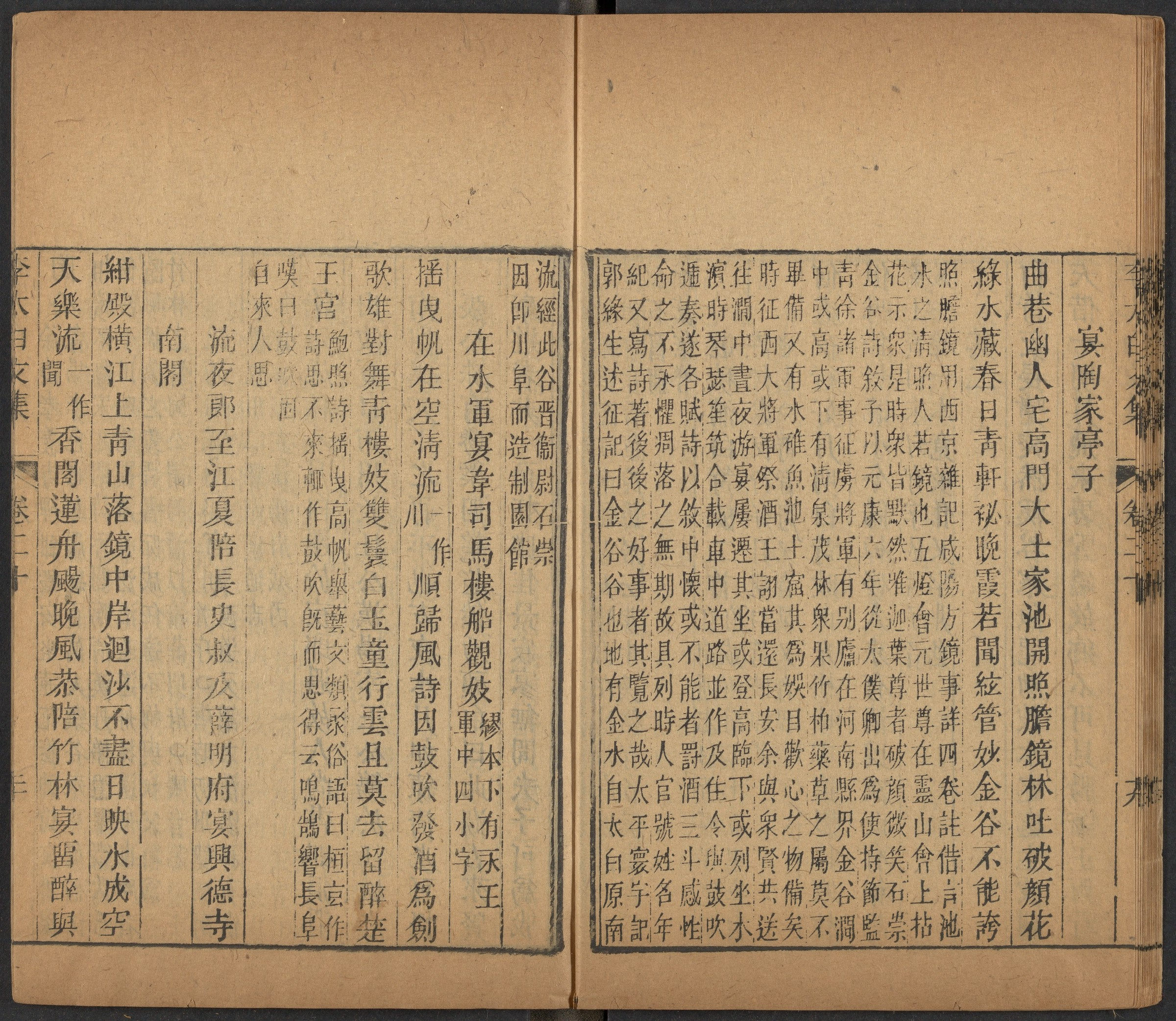 Li Bai's poem Banquet in Family Tao's Pavilion in an edition with comments from Wáng Qí